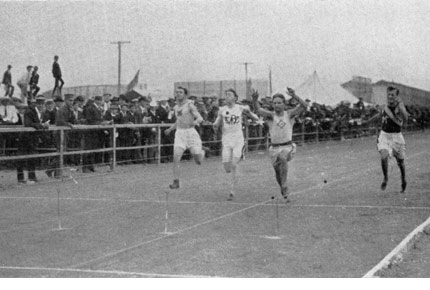 Finish of 60 m running event during 1904 Summer Olympics